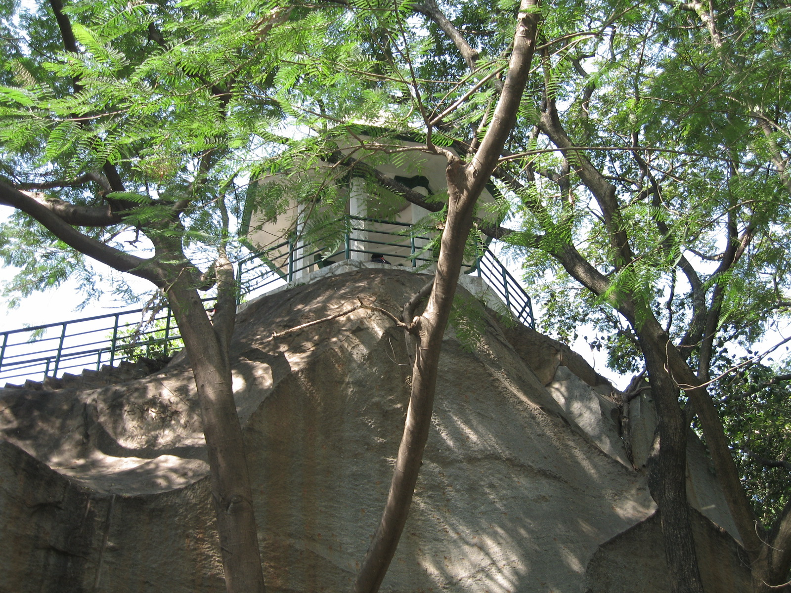 Bugle Rock watchtower